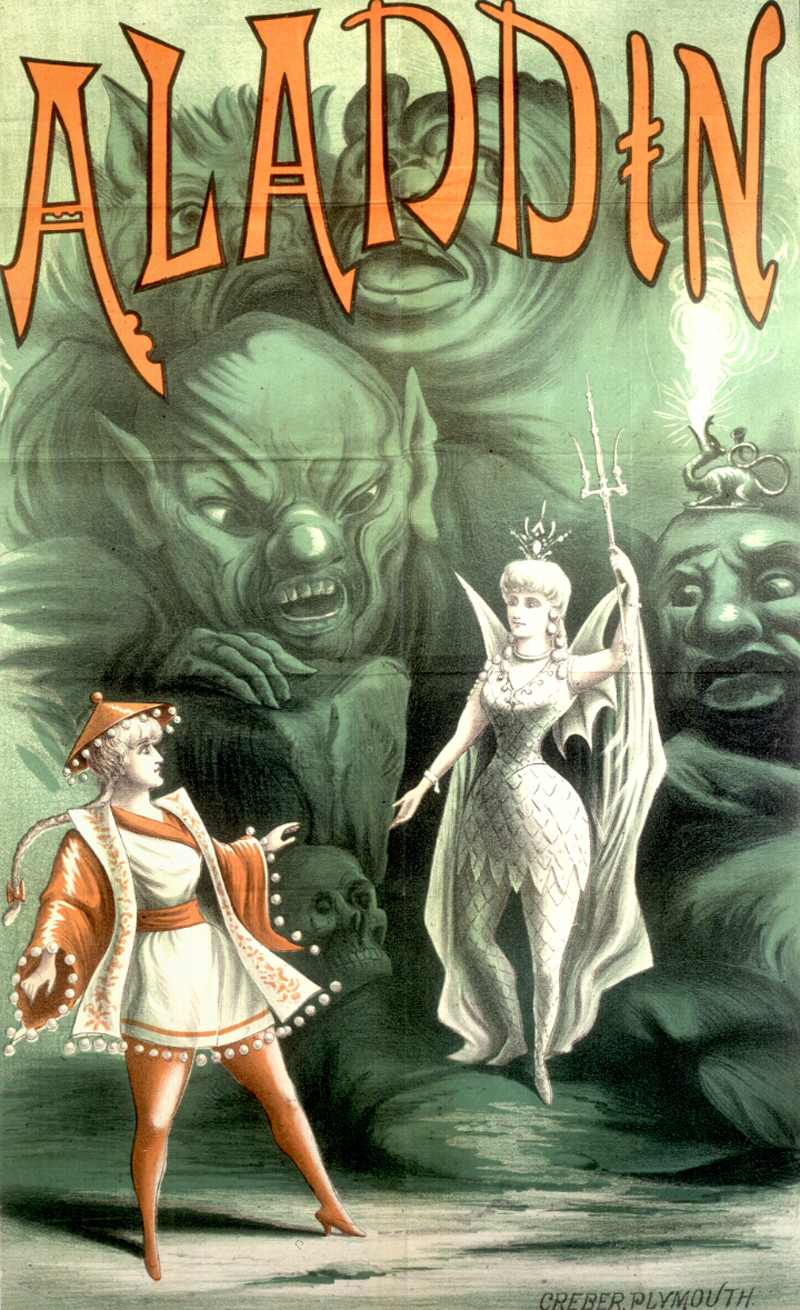 Description: Design for a theatre poster advertising a production of the pantomime Aladdin. Date: 1886 Our Catalogue Reference: COPY 1/76 f.422 This image is from the collections of The National Archives. Feel free to share it within the spirit of the Commons. For high quality reproductions of any item from our collection please contact our image library.